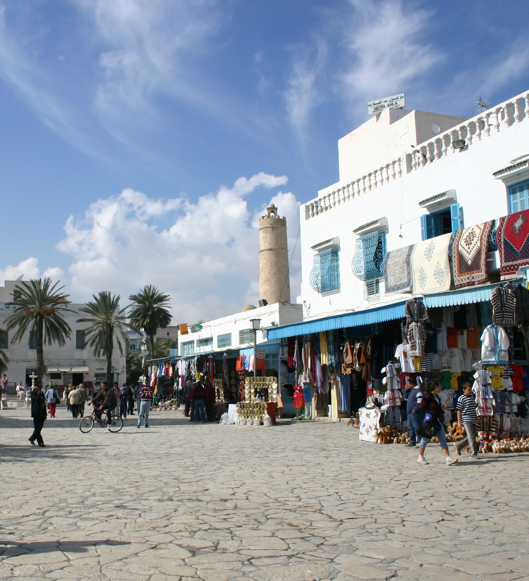 Old town centre of Sousse with the Ribat in the background